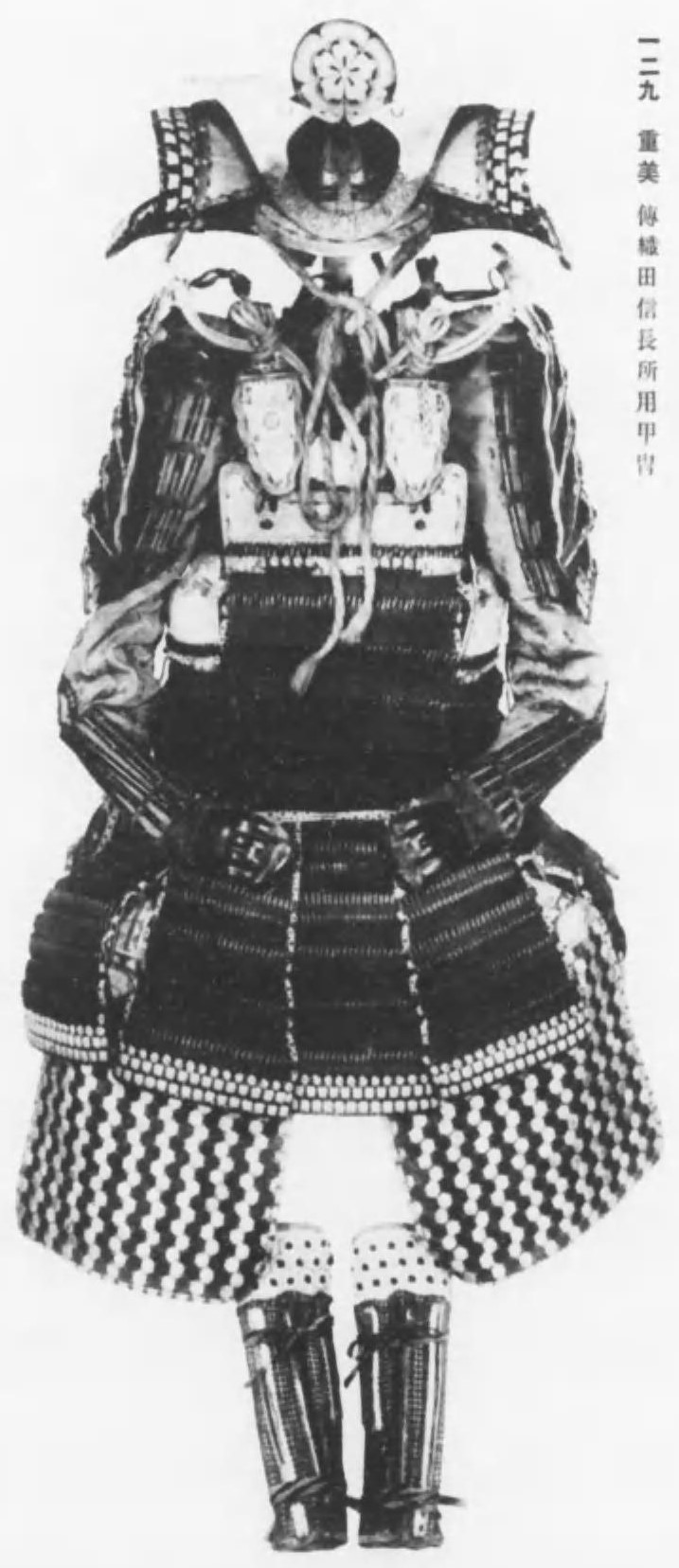 Kon-ito odoshi domaru at Takeisao jinja, Kyoto, Kyoto preefcture. An important cultural property of Japan.